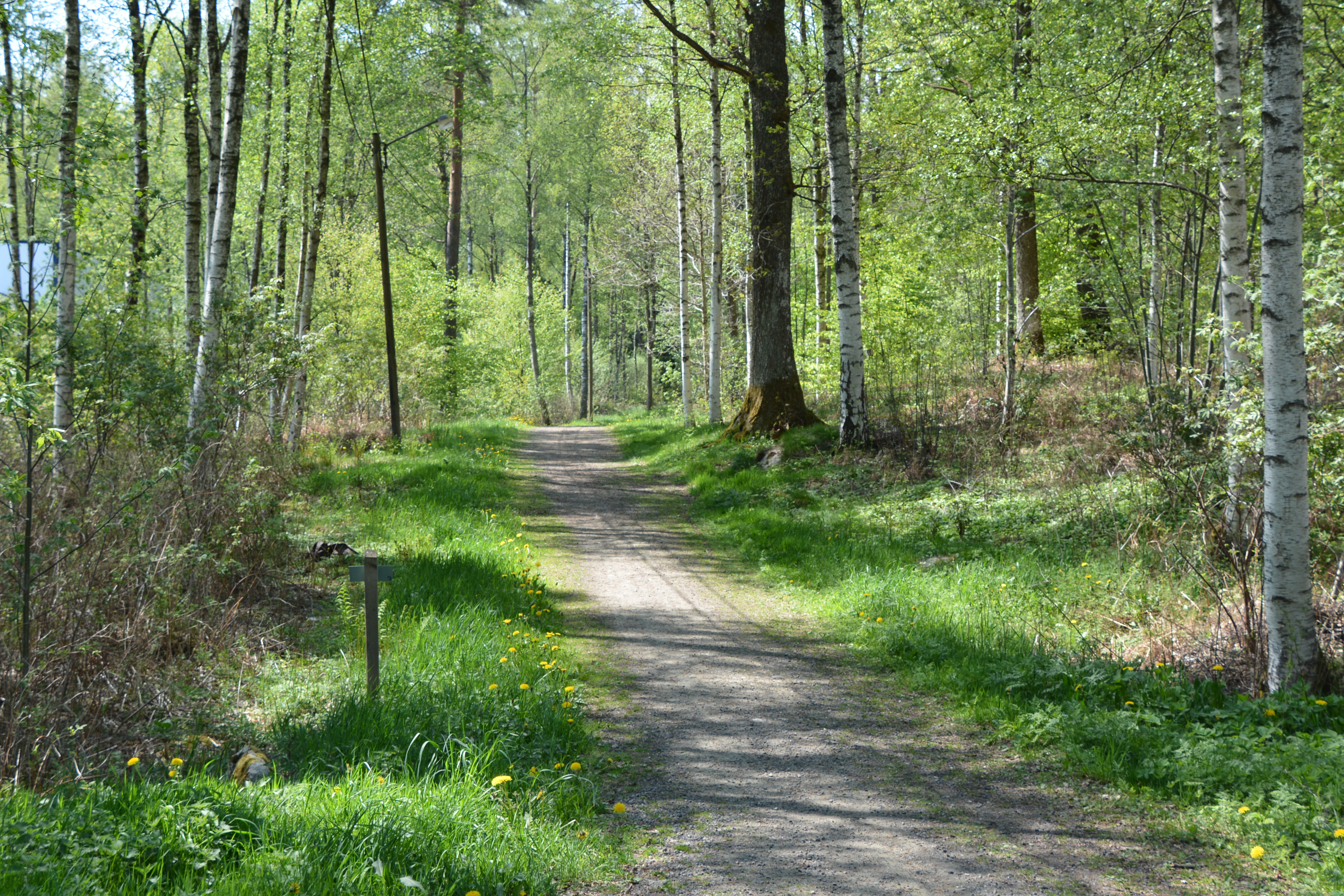 Motionsspår på tidigare banvallen till Grisabanan, Lönsboda